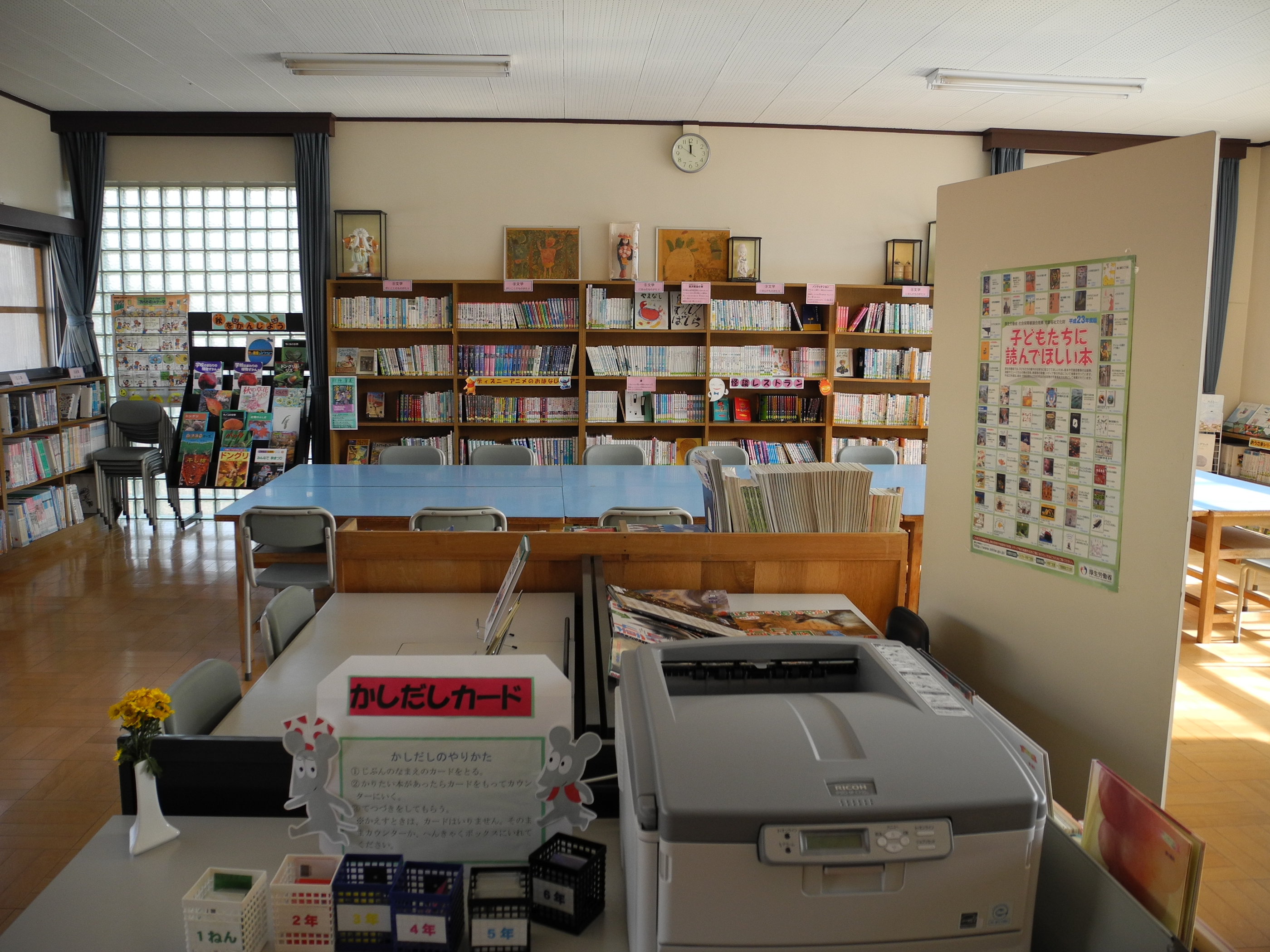 Back of library. Jinego Elementary School. Kami-Jinego, Chokai, Yurihonjo, Akita, Japan.